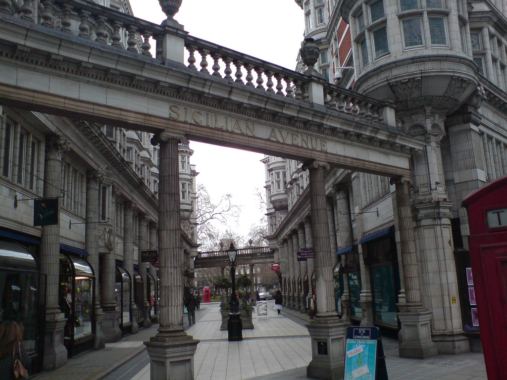 Sicilian Avenue at Holborn, London